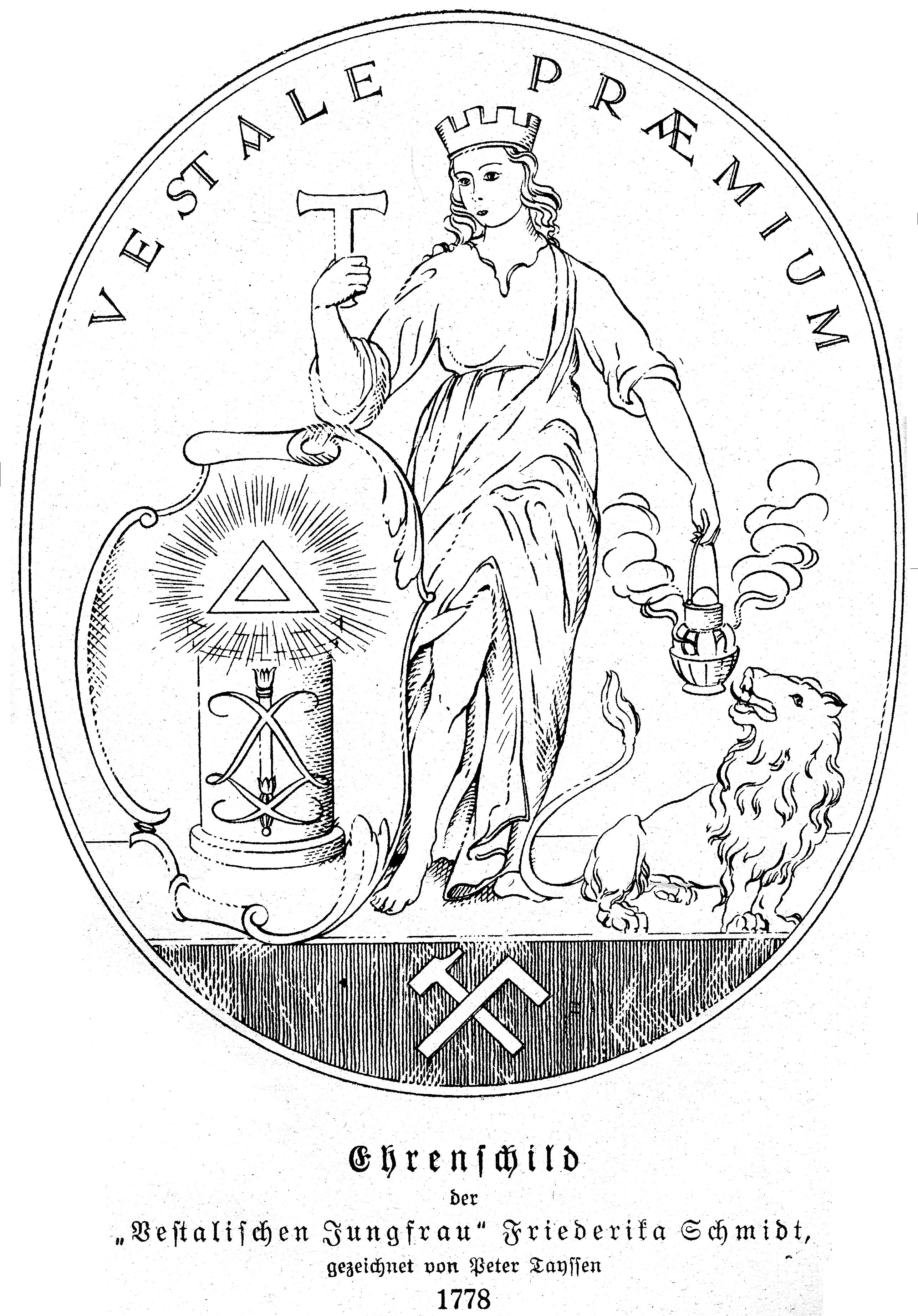 s